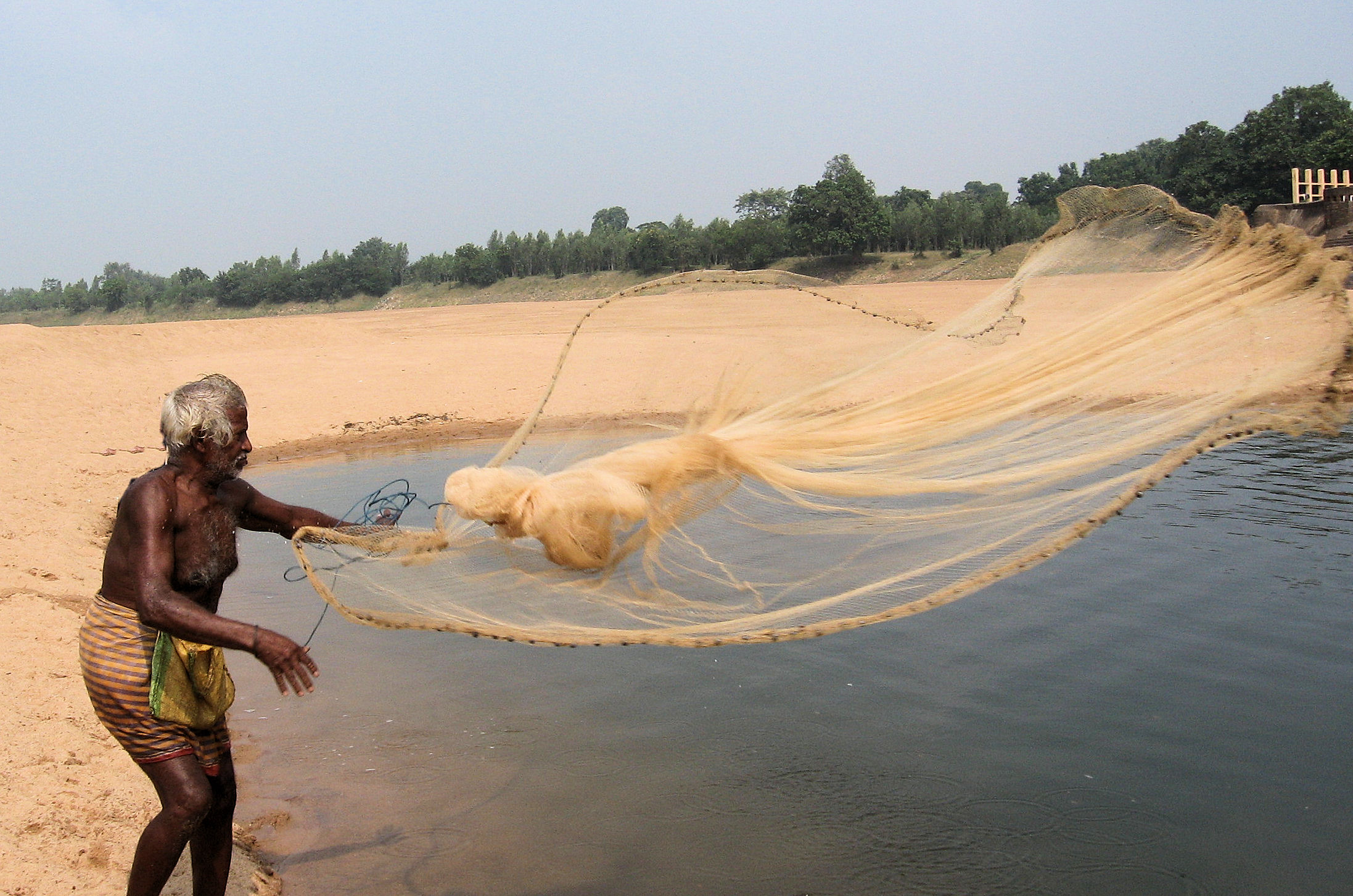 Fisherman at Work in Cuttack,Orissa, India